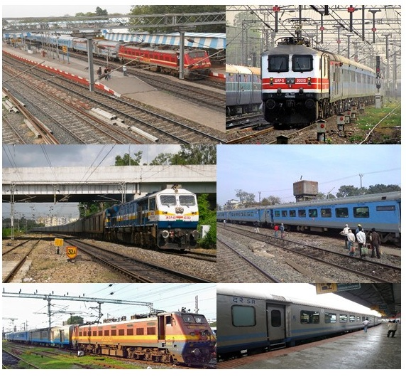 A montage of Shatabdi expresses